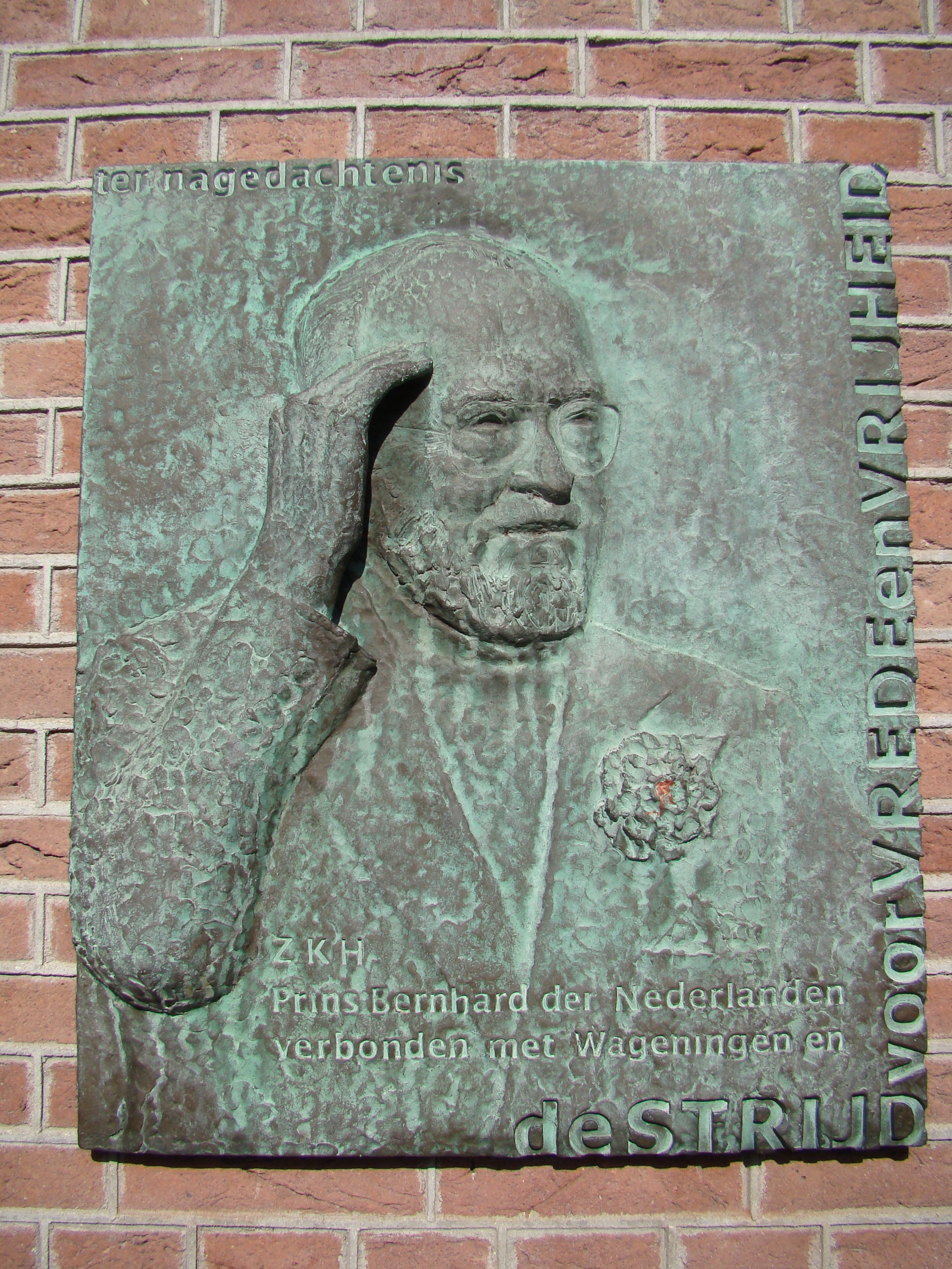 Plaquette Prince Bernard "Hotel de Wereld" Wageningen, Netherlands